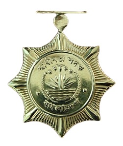 Independence Day gold medal, the highest state award given by the government of Bangladesh